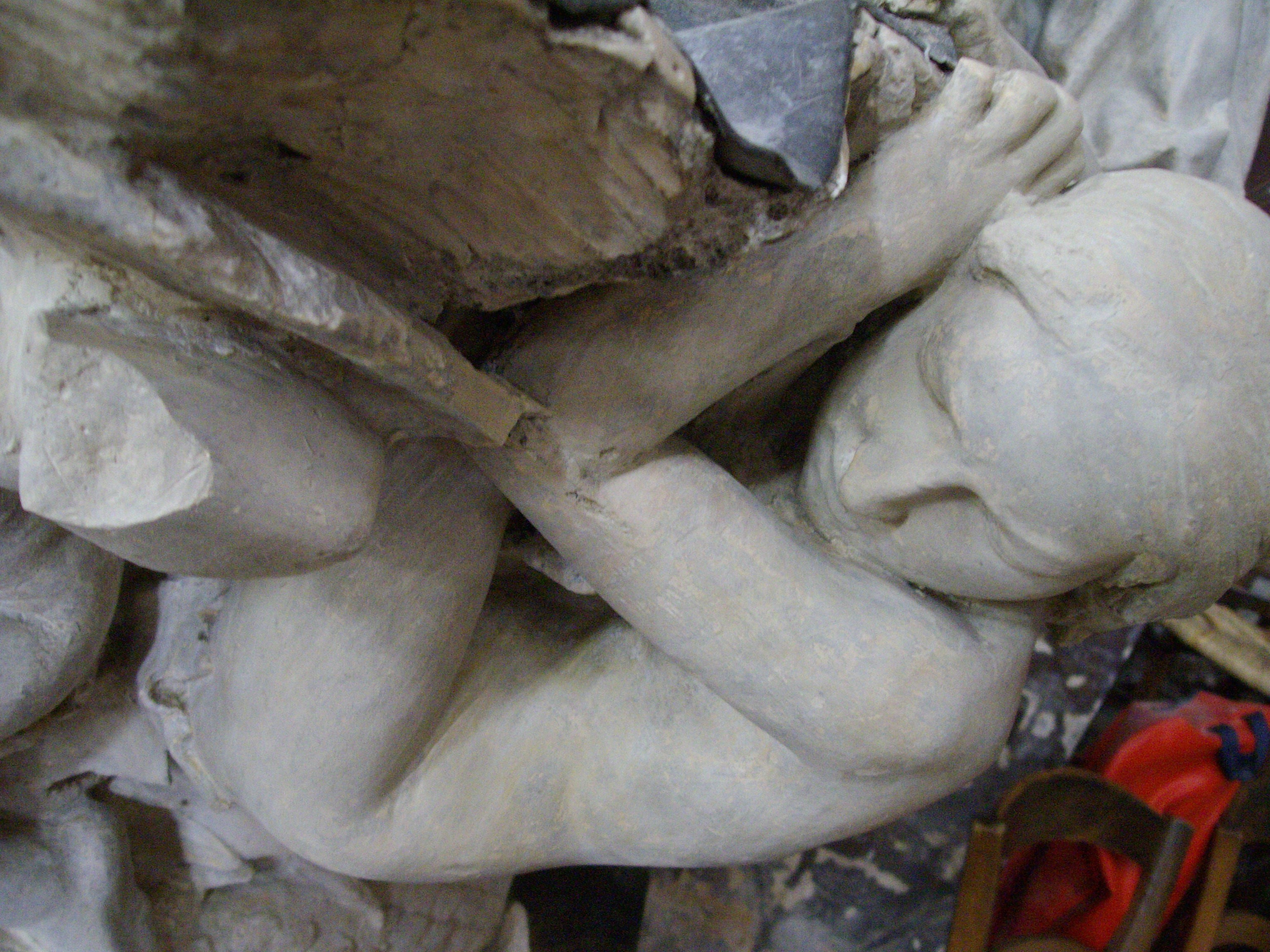 The Église Saint-Eustache of Paris (France)